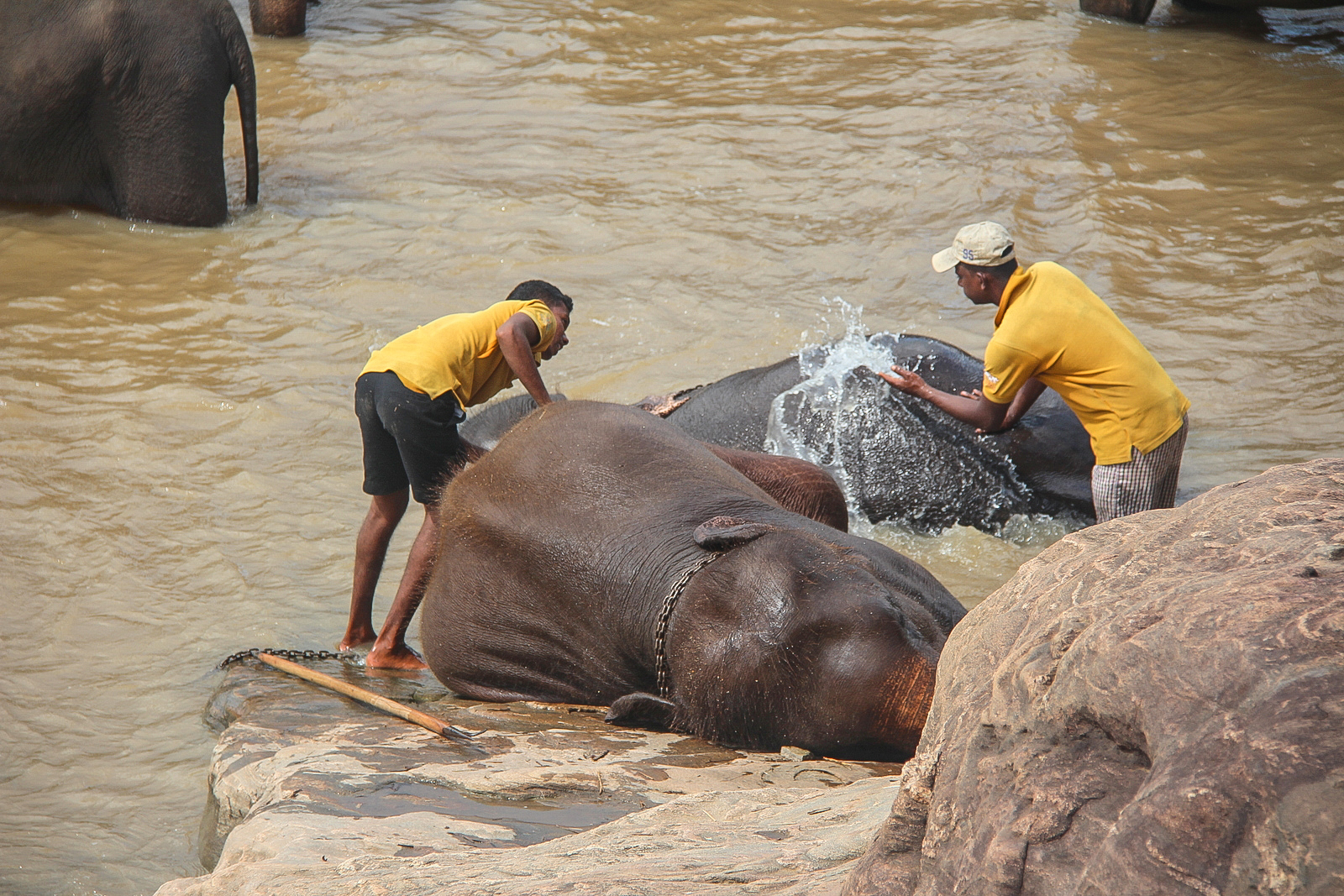 Two men washing elephant Sri Lanka